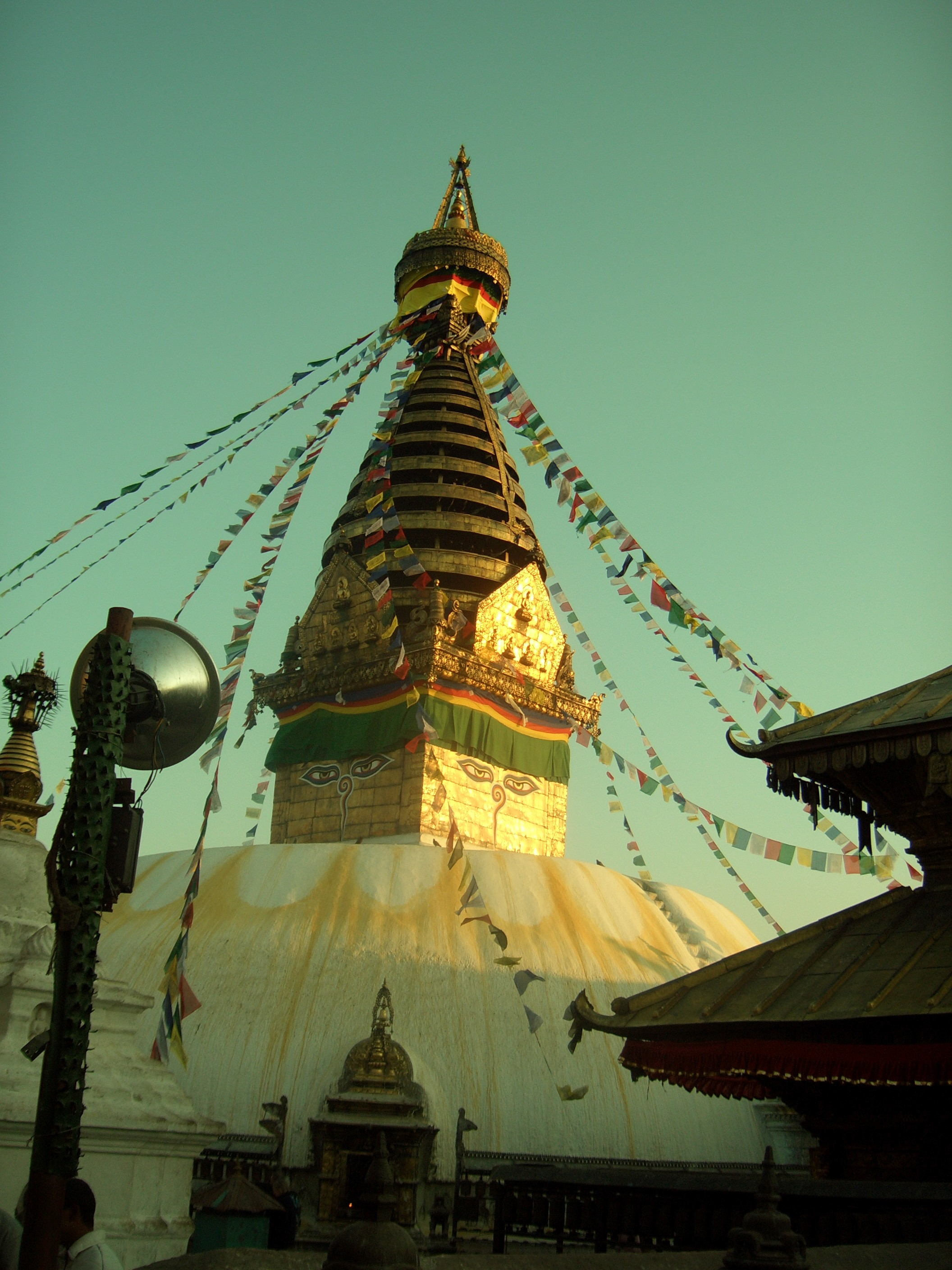 Photo: Soman